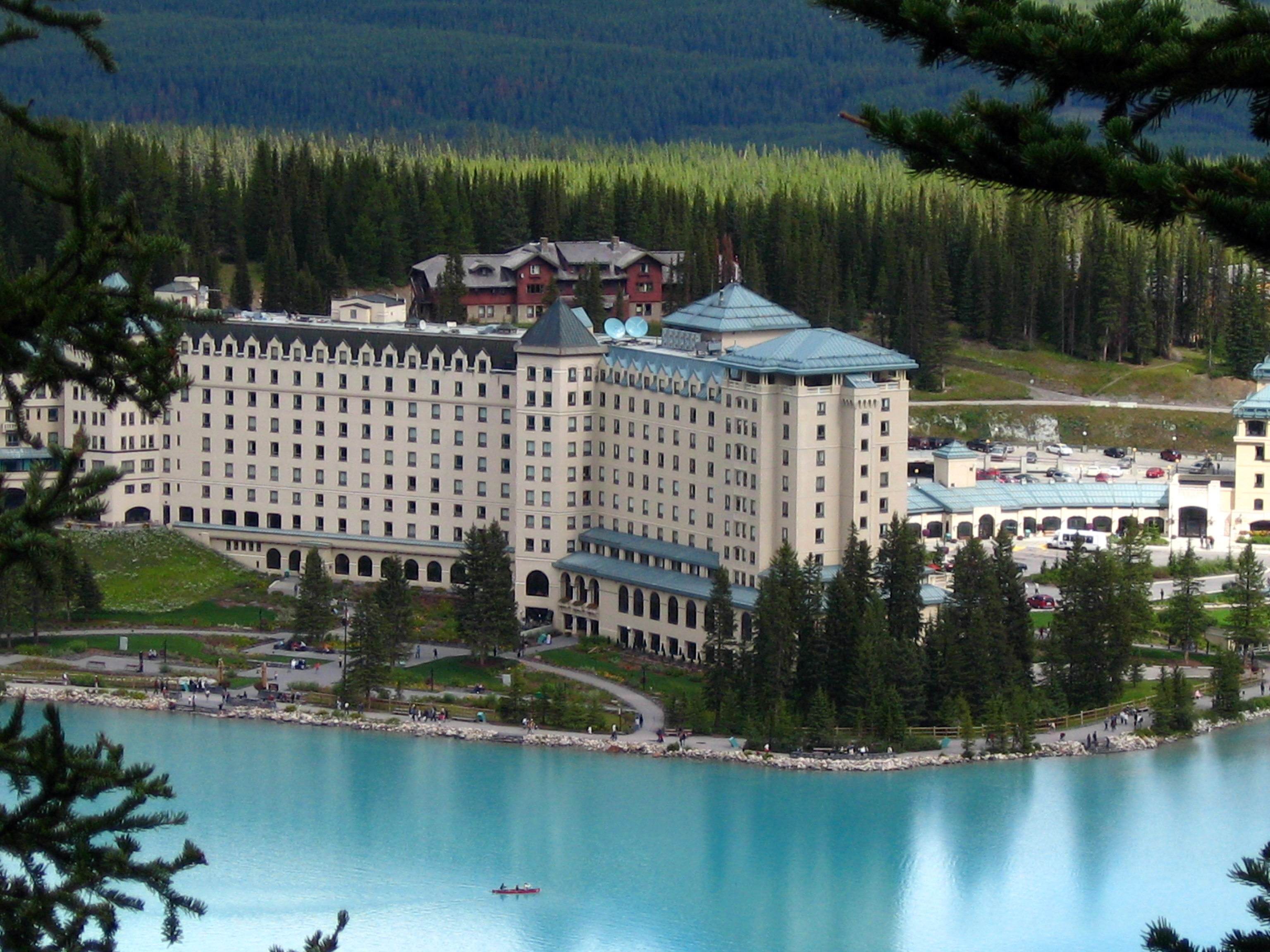 Chateau Lake Louise in Alberta, Canada